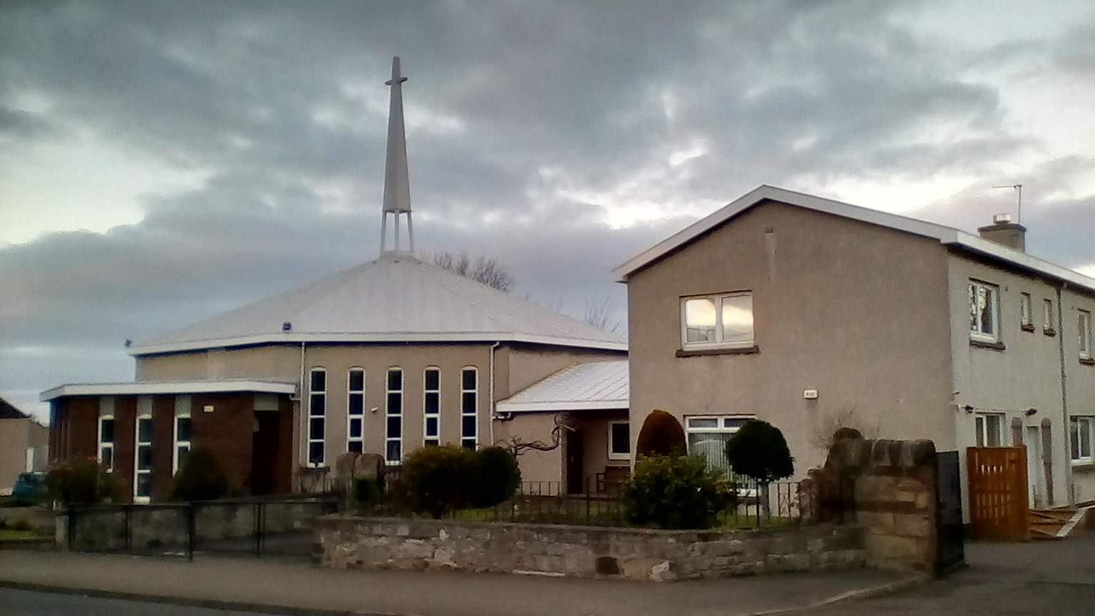 St Martin of Tours RC Church, Tranent (1969) architect Charles W Gray